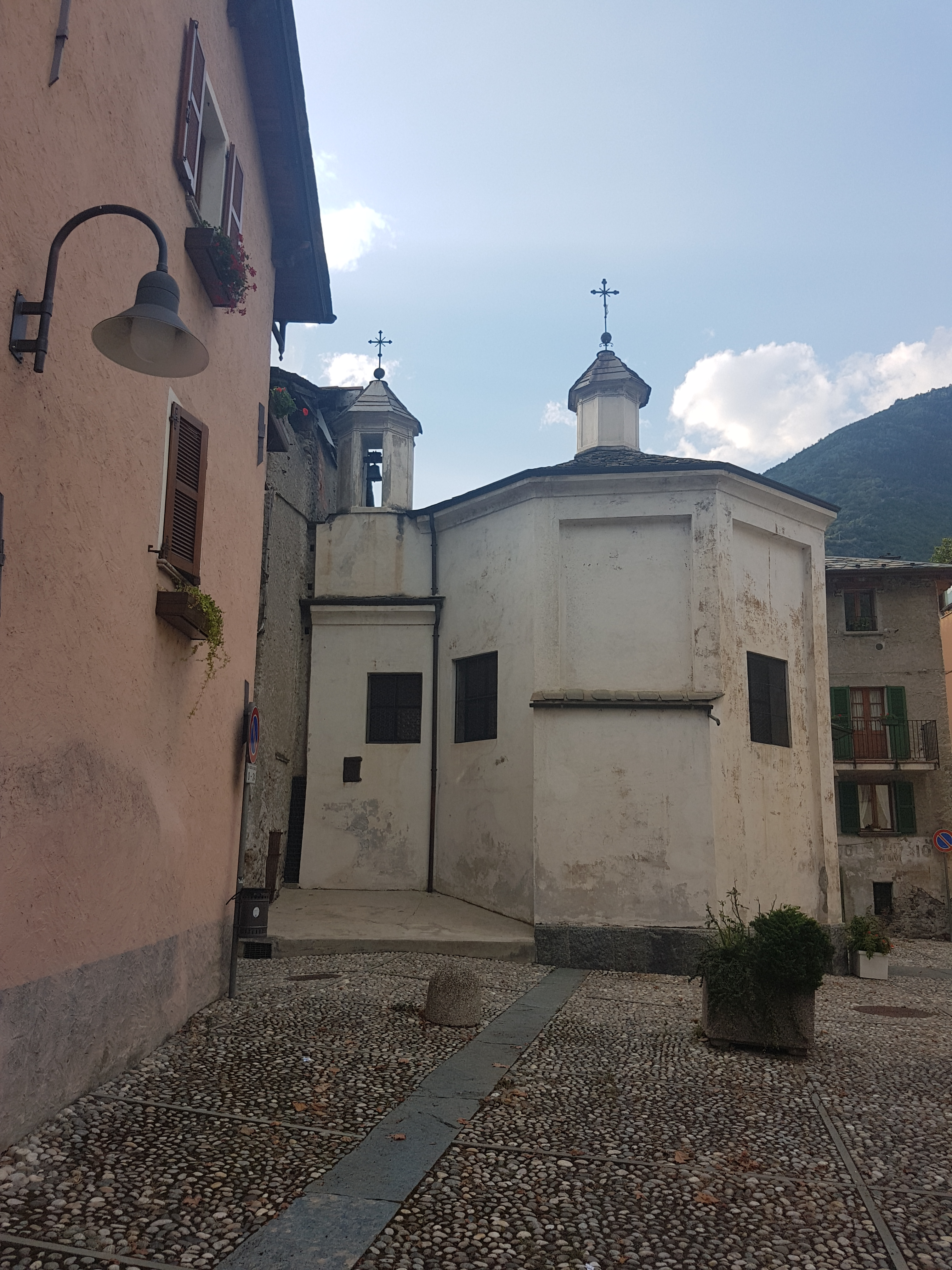 Church of Mariano Spasmo (Chiesa Mariano Spasmo) in Tirano.